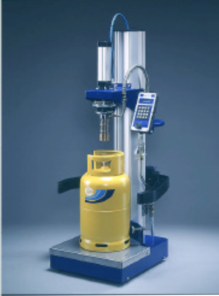 Универсальный заправочный аппарат UFM